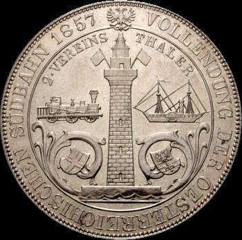 2 Vereinsthaler to commemorate the opening of the Austrian Southern Railway, Austrian Empire (1857, Vienna), reverse